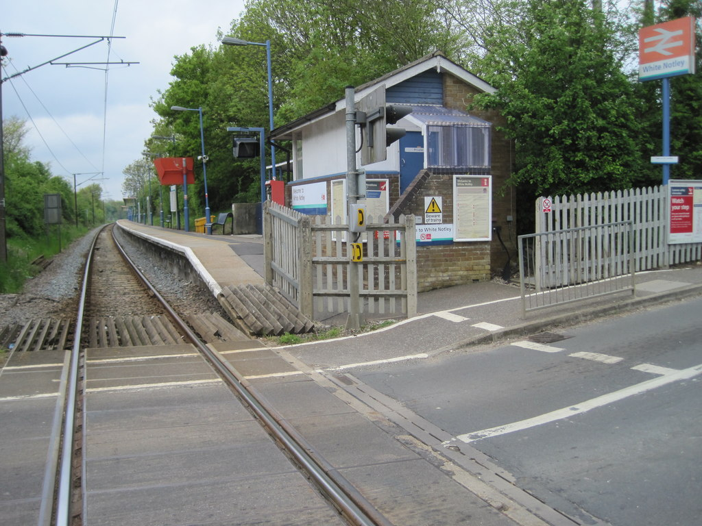 Opened in 1848 by the Eastern Counties Railway on the line from Witham to Braintree. View north west towards Cressing and Braintree.